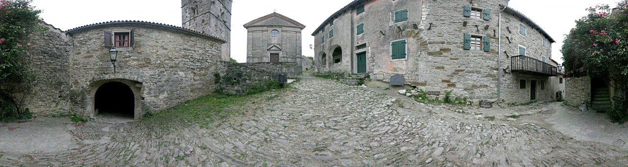 Panorama of the entrance to Hum ("the smallest town on Earth")